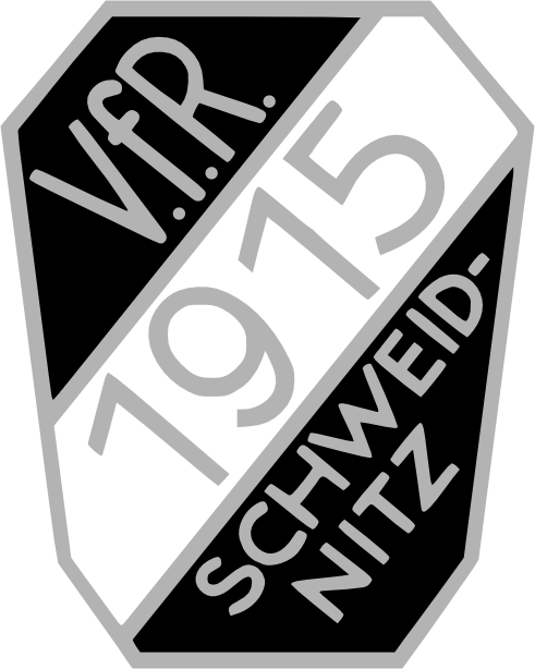 Historical Logo of VfR 1915 Schweidnitz.